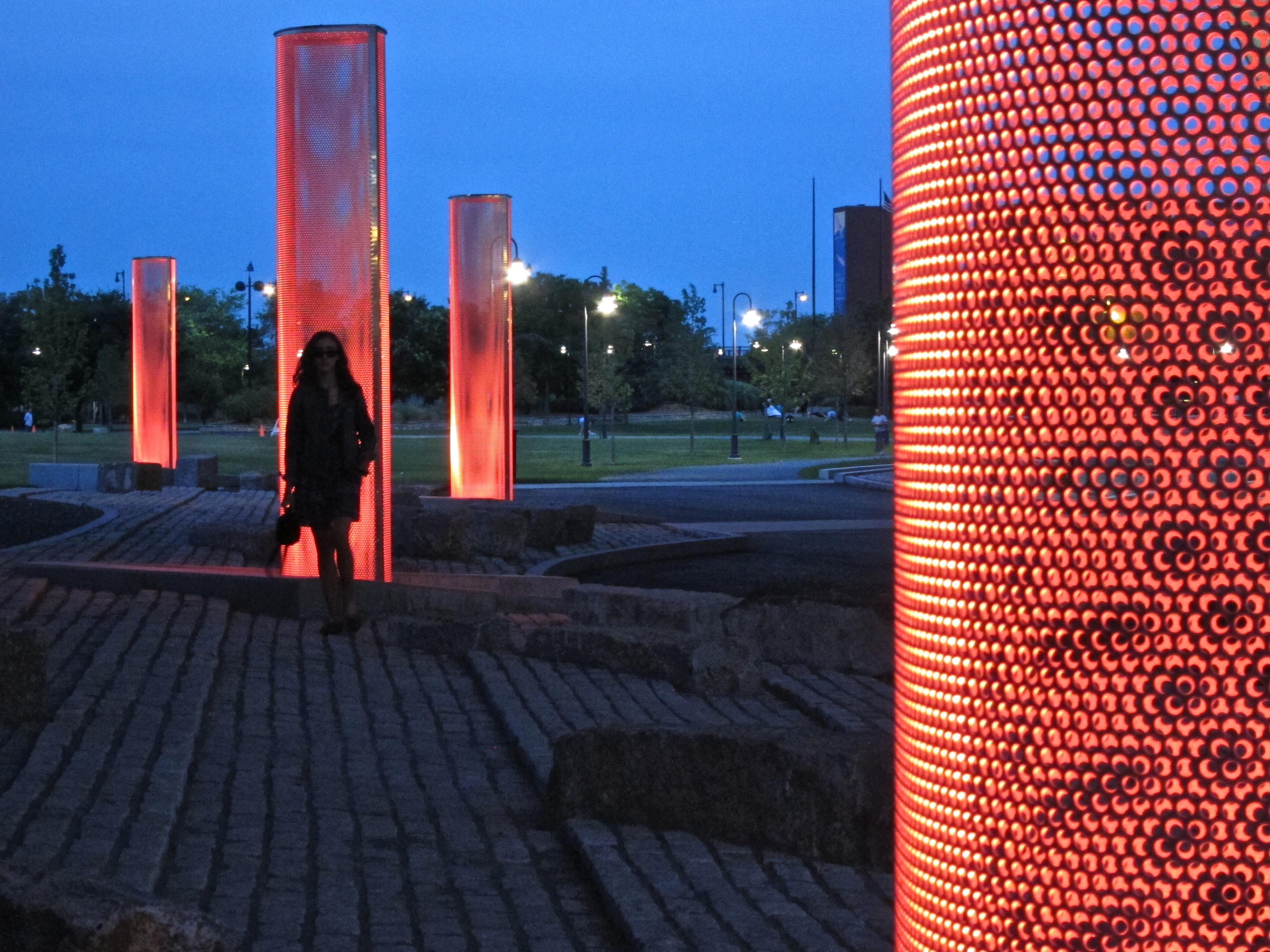 Lighting sculptures under Zakim Bridge, Boston, Massachusetts.